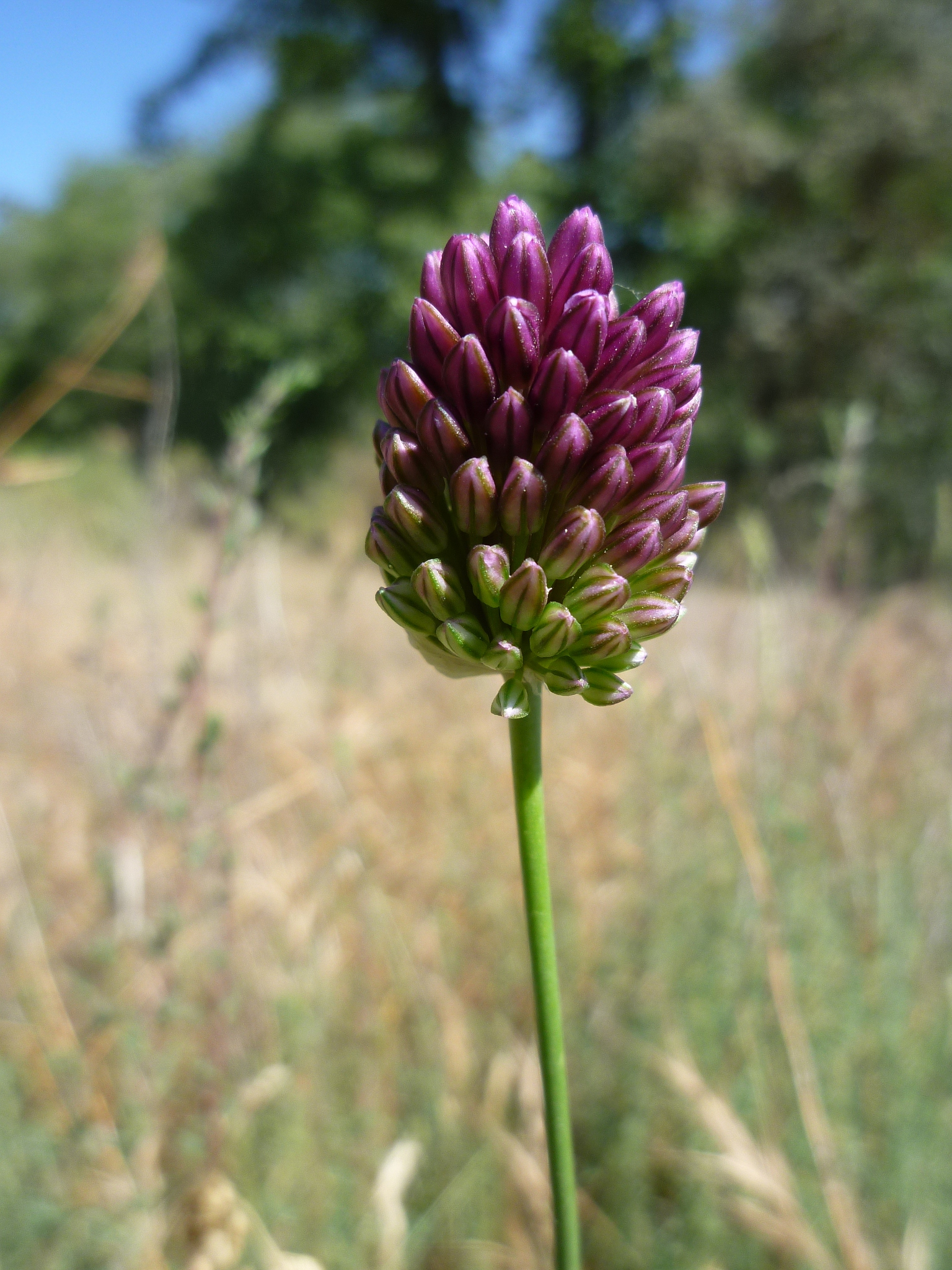 Allium scorodoprasum. In Torà (Segarra-Catalunya). To 470 m. altitude